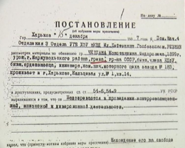 Warrant for arrest of Konstantin Chelpan. The word "Greek" is underlined in red